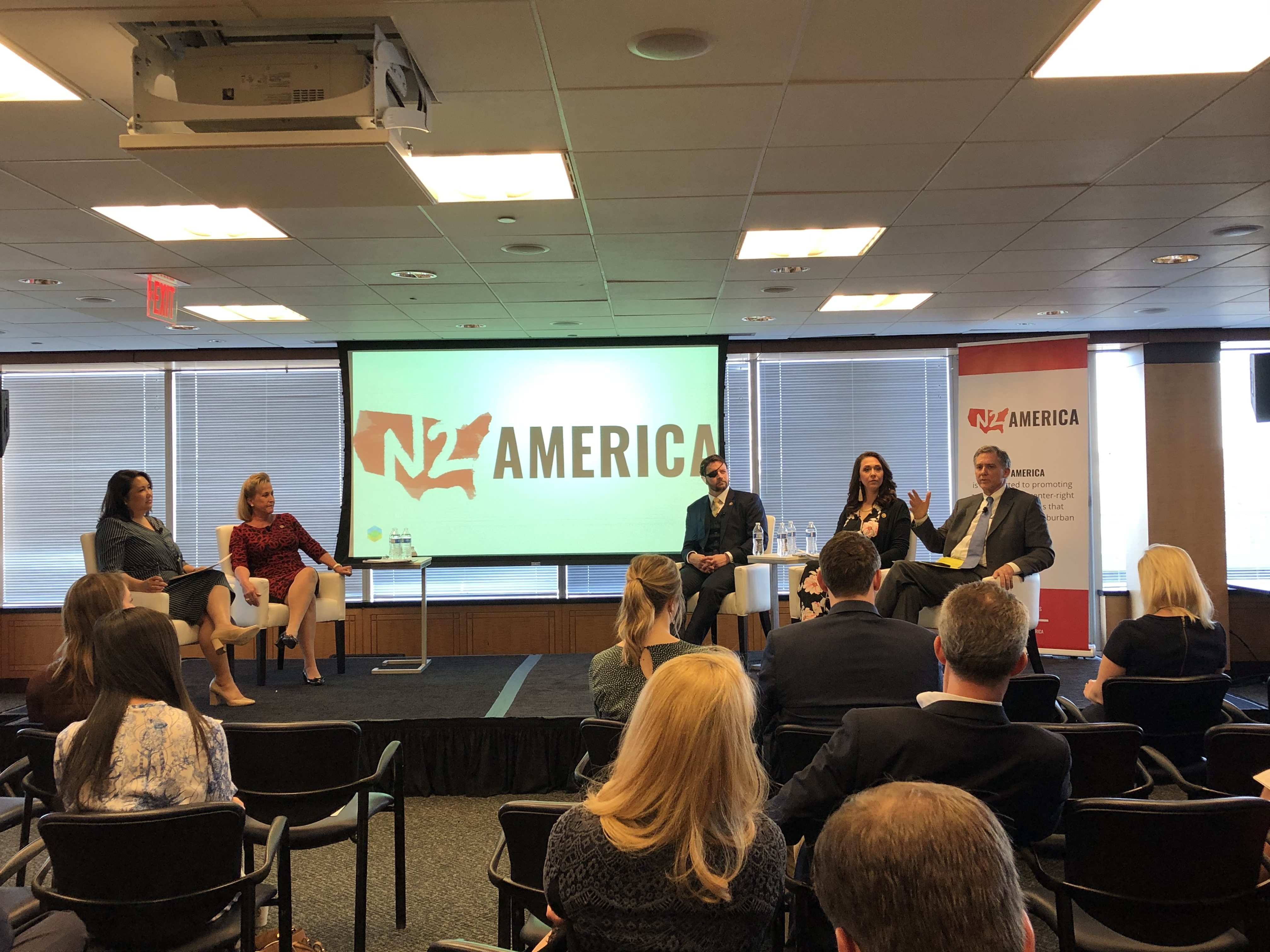 Thank you to my fellow members of the Suburban Caucus, @RepAnnWagner, @RepDanCrenshaw, and @HerreraBeutler, as well as the @ACLINews VP of Gov’t Relations, Joyce Meyer, for joining me in a discussion on how we can best advocate for policies that help suburban Americans.